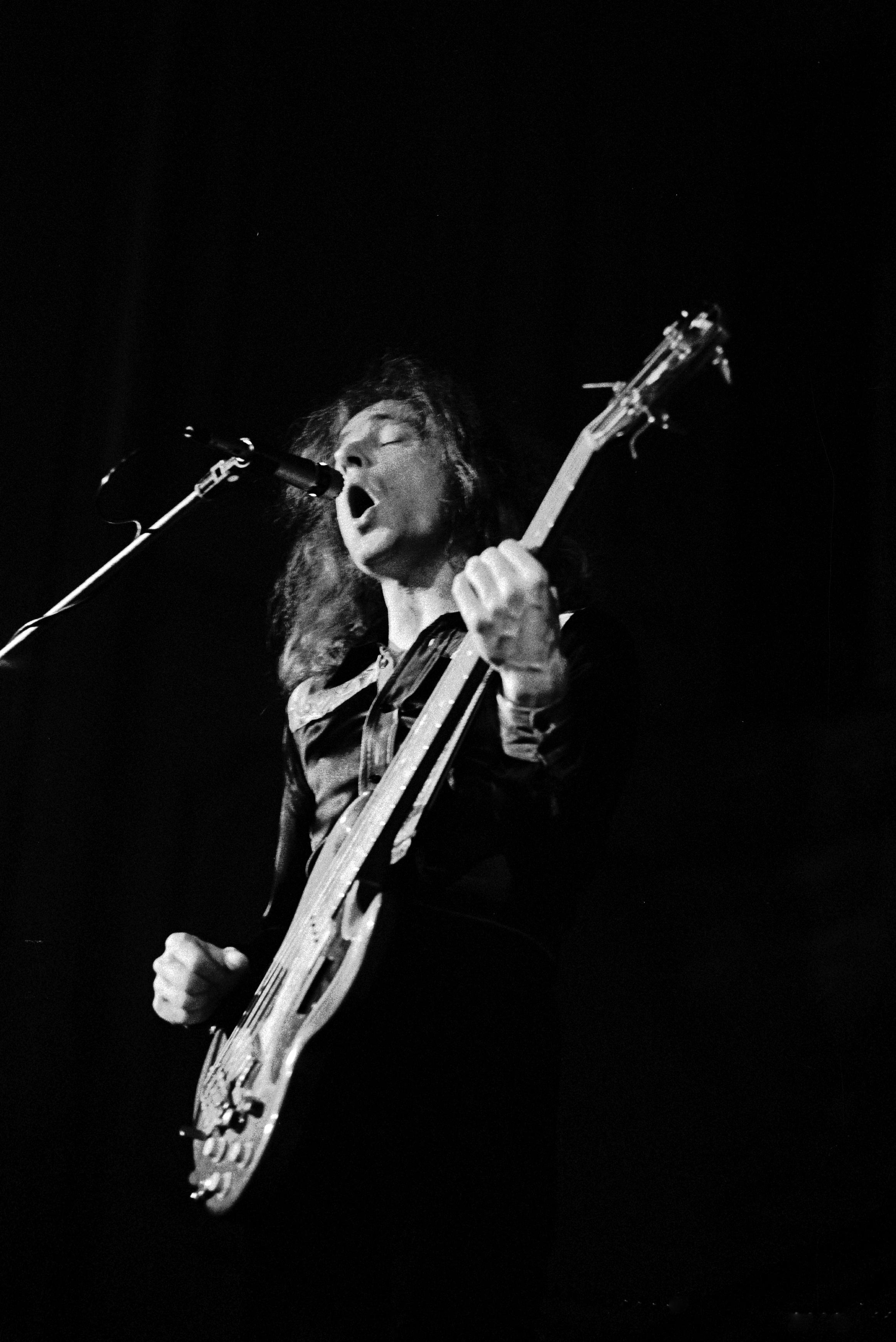 Jack Bruce 1972 set